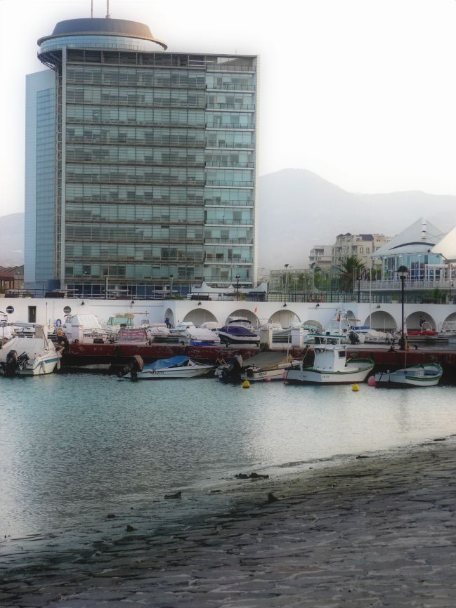 Dock of the Port of Melilla, in Spain.